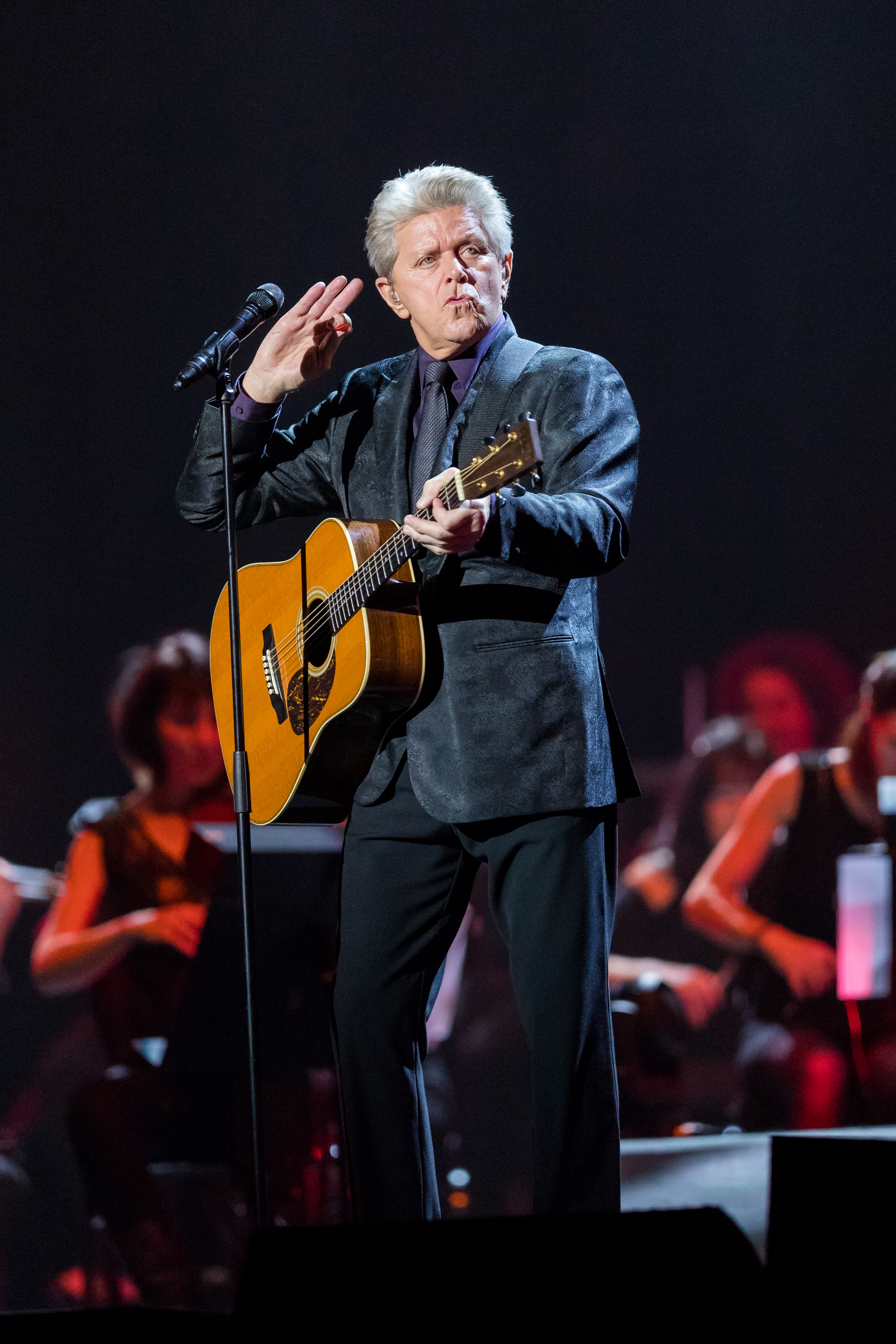 Peter Cetera during Night of the Proms at SAP Arena, Mannheim, Baden-Württemberg, Germany on 2017-12-22, Photo: Sven Mandel